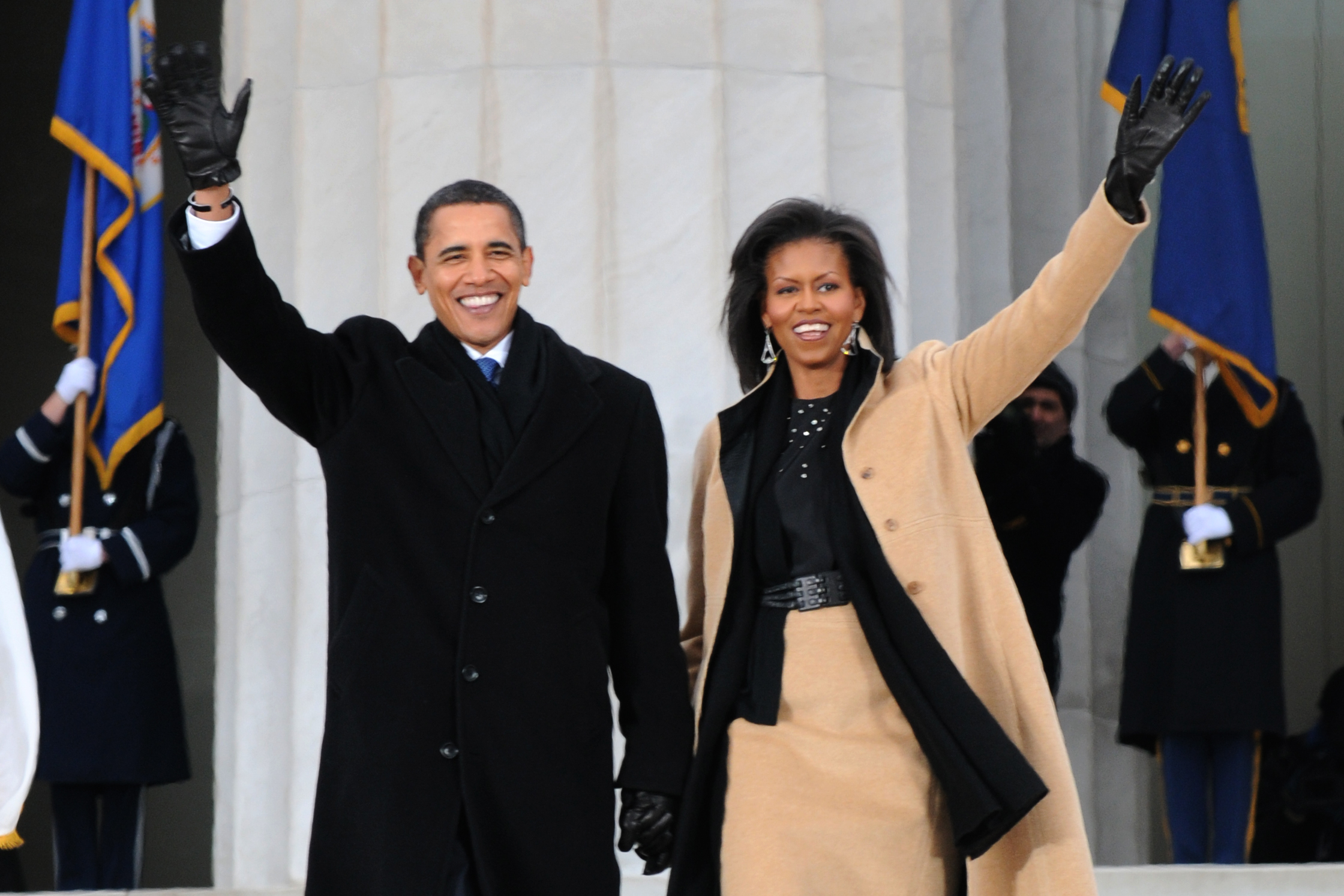 President-elect Barack Obama and Michelle Obama wave to the crowd during the inaugural opening ceremonies at the Lincoln Memorial on the National Mall in Washington, D.C., Jan. 18, 2009.